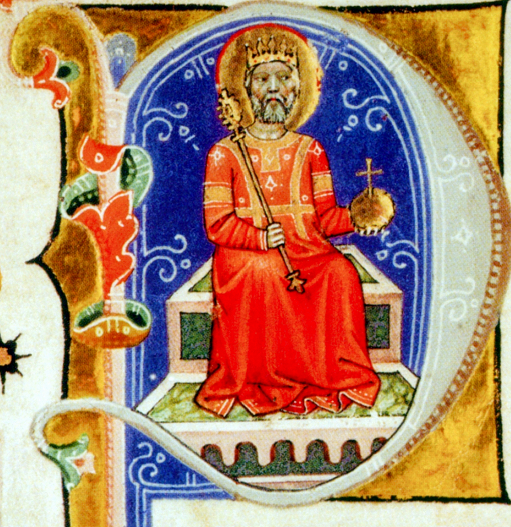 Stephen I of Hungary on the throne